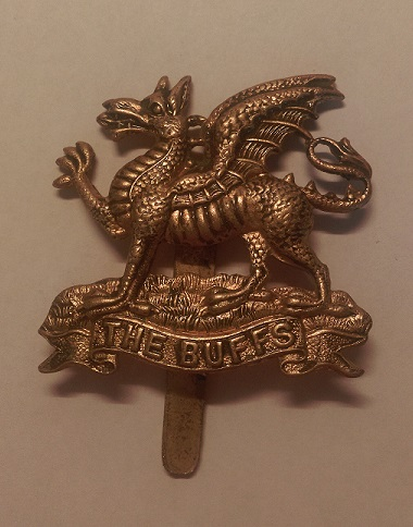 Photo of Buffs (Royal East Kent Regiment) Cap Badge from personal collection